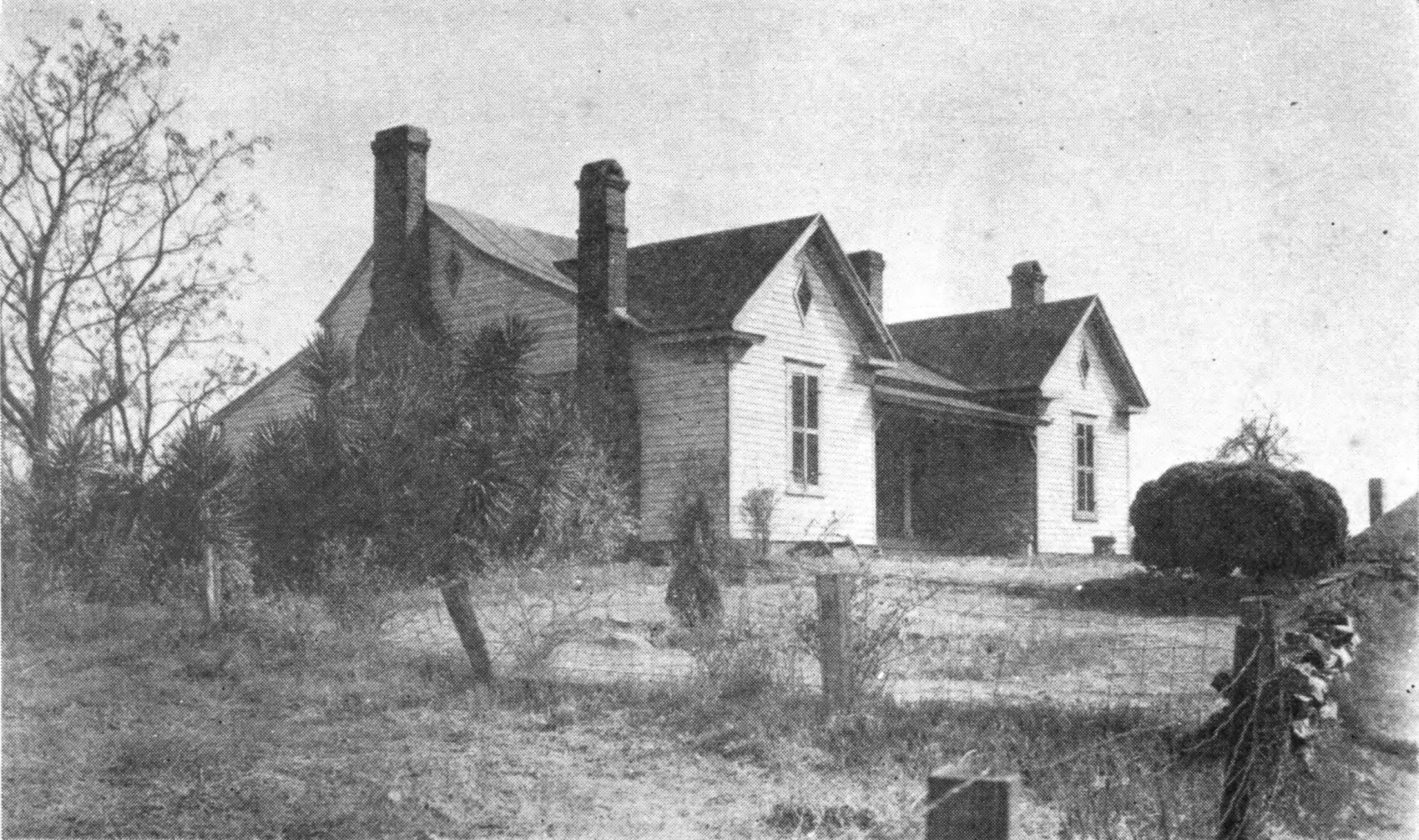 Photo of historic Huff House in Atlanta, Georgia showing the front porch, two chimneys and the front yard.